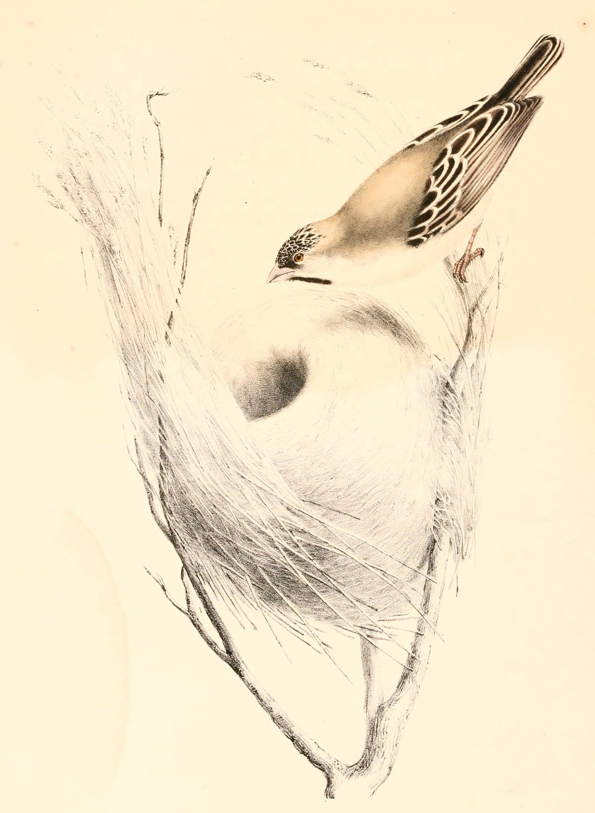 « Amadina squamifrons » = Sporopipes squamifrons (Scaly-feathered Weaver) - female